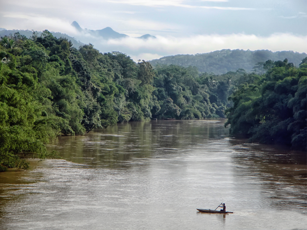 Sripada View01